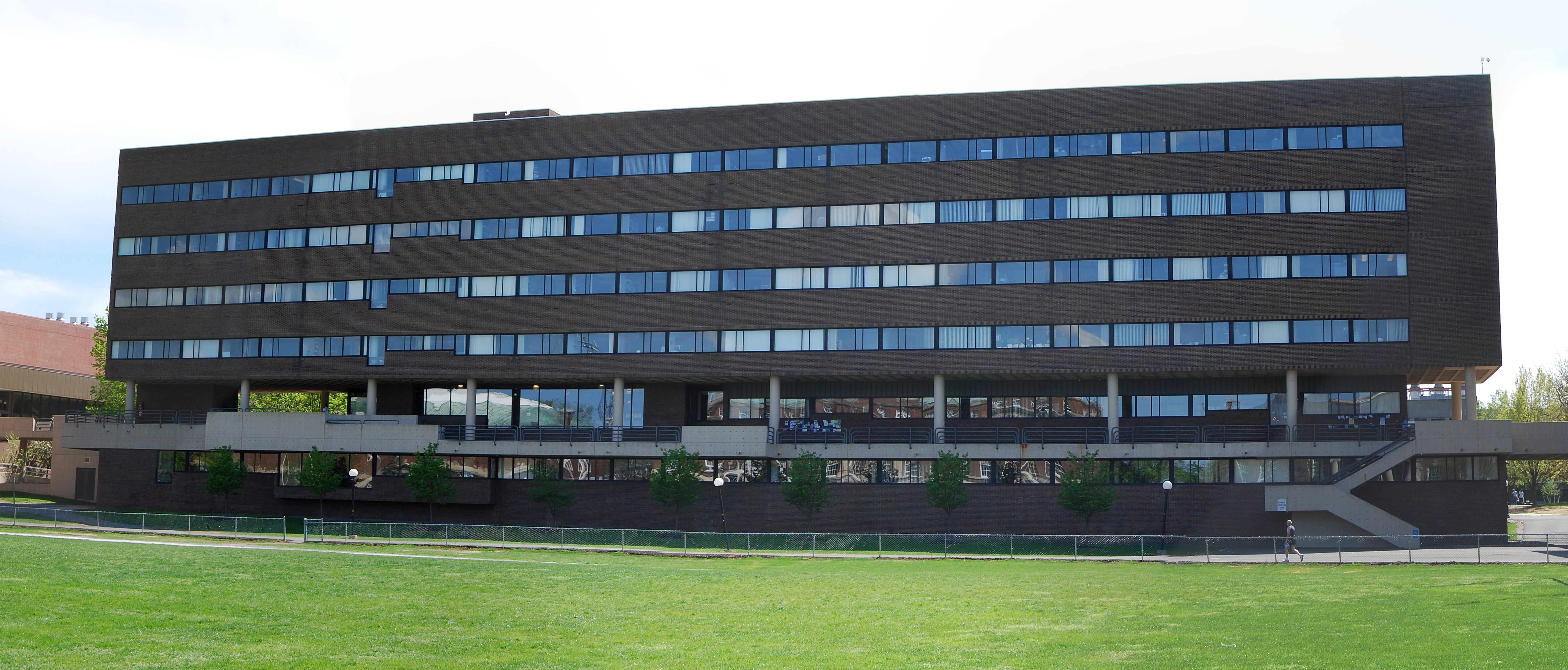 Jonsson Engineering Center on the campus of Rensselaer Polytechnic Institute in Troy, New York, United States